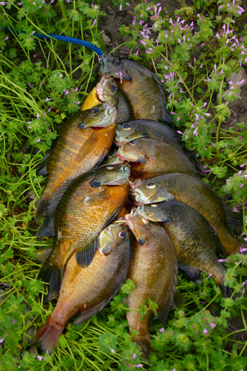 Stringer of bluegills taken from Bilby Ranch Lake in Missouri.